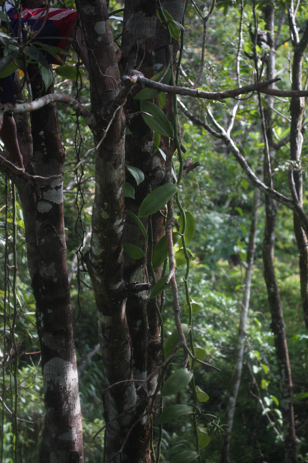 Vanilla raabii , plant. Named after Raab Bustamante